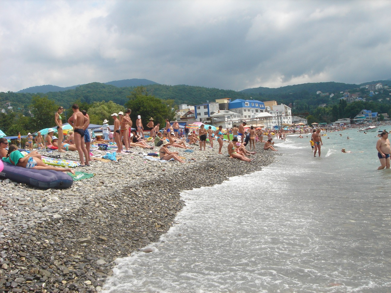 Stone beach in Lazarevskoe. Каменистый пляж в Лазаревском.